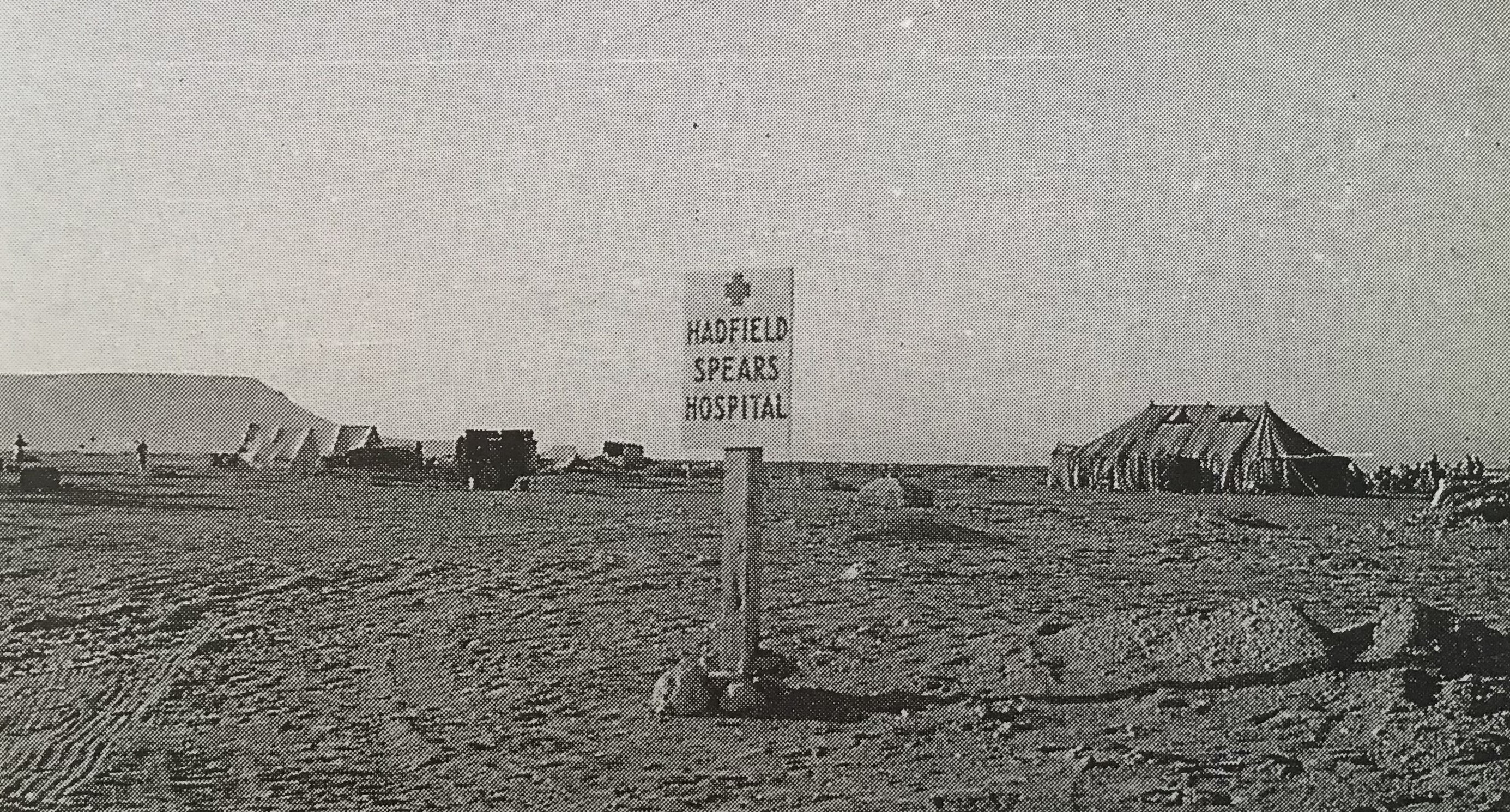 The Hadfield Spears Ambulance at Bir Hakeim